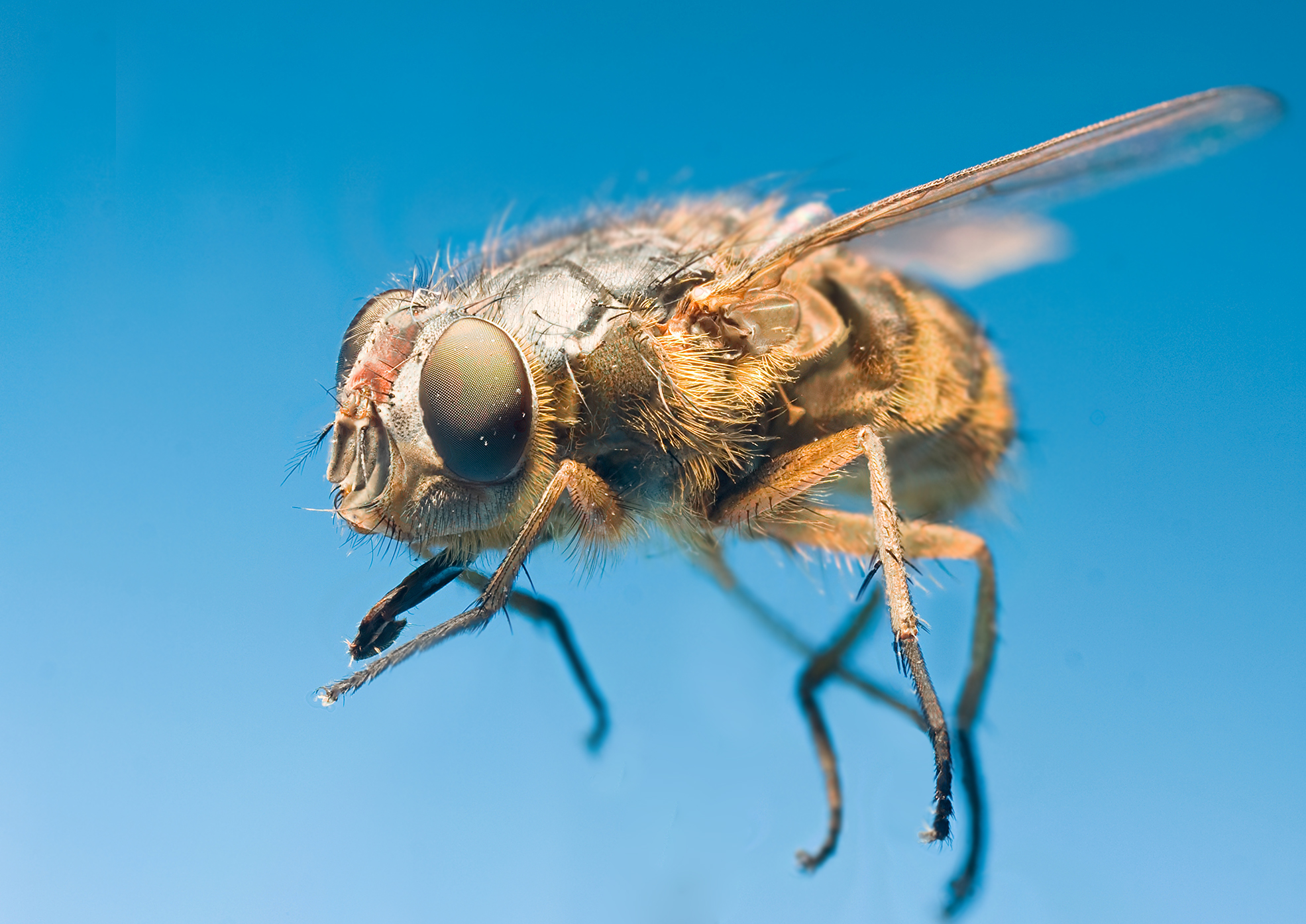 Hill's brown blowfly (Calliphora hilli), Austin's Ferry, Tasmania, Australia